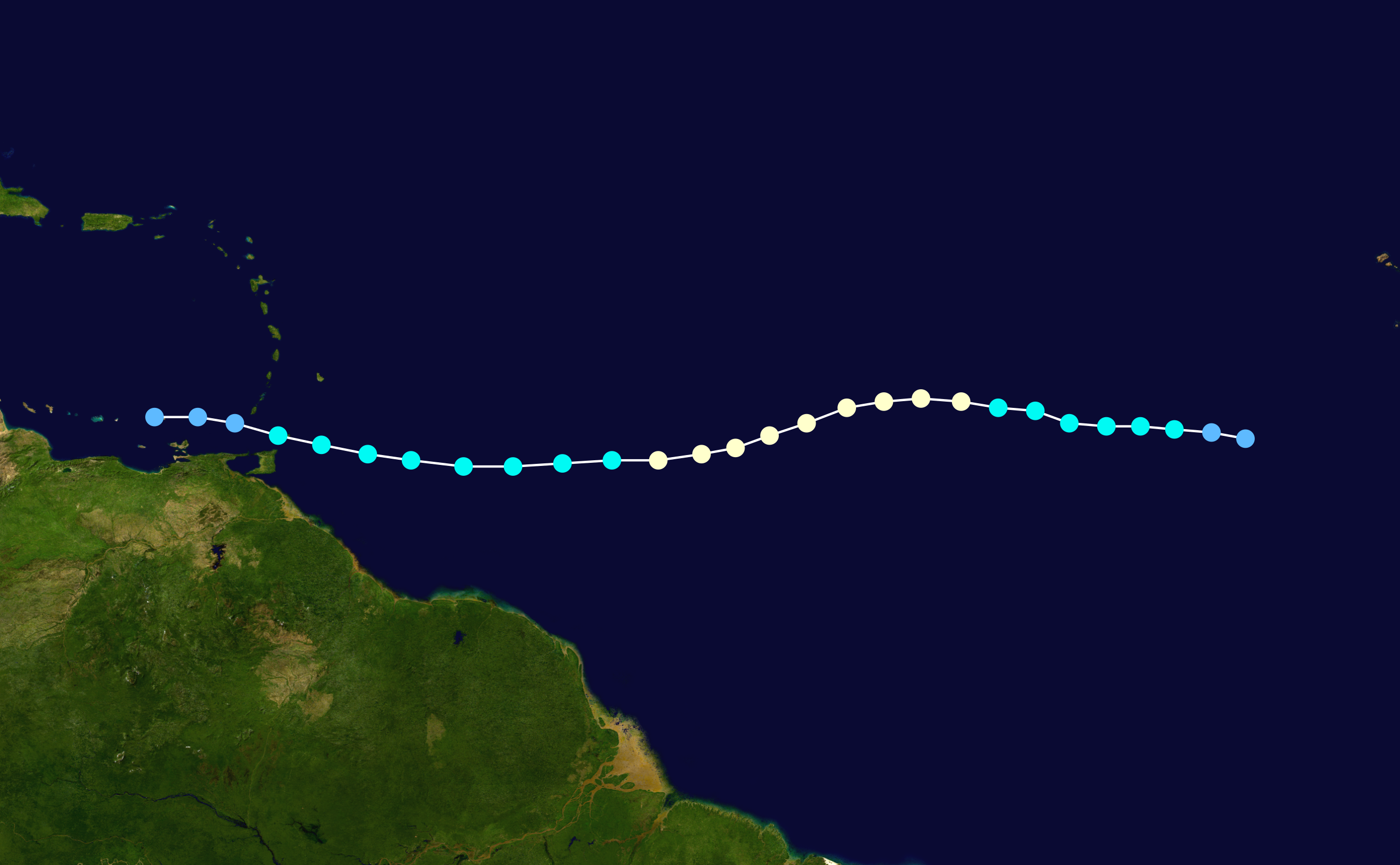 Track map of Hurricane Joyce of the 2000 Atlantic hurricane season. The points show the location of the storm at 6-hour intervals. The colour represents the storm's maximum sustained wind speeds as classified in the Saffir–Simpson scale (see below), and the shape of the data points represent the nature of the storm, according to the legend below. Saffir–Simpson scale Tropical depression≤38 mph≤62 km/h Category 3111–129 mph178–208 km/h Tropical storm39–73 mph63–118 km/h Category 4130–156 mph209–251 km/h Category 174–95 mph119–153 km/h Category 5≥157 mph≥252 km/h Category 296–110 mph154–177 km/h Unknown Storm type Tropical cyclone Subtropical cyclone Extratropical cyclone / Remnant low / Tropical disturbance